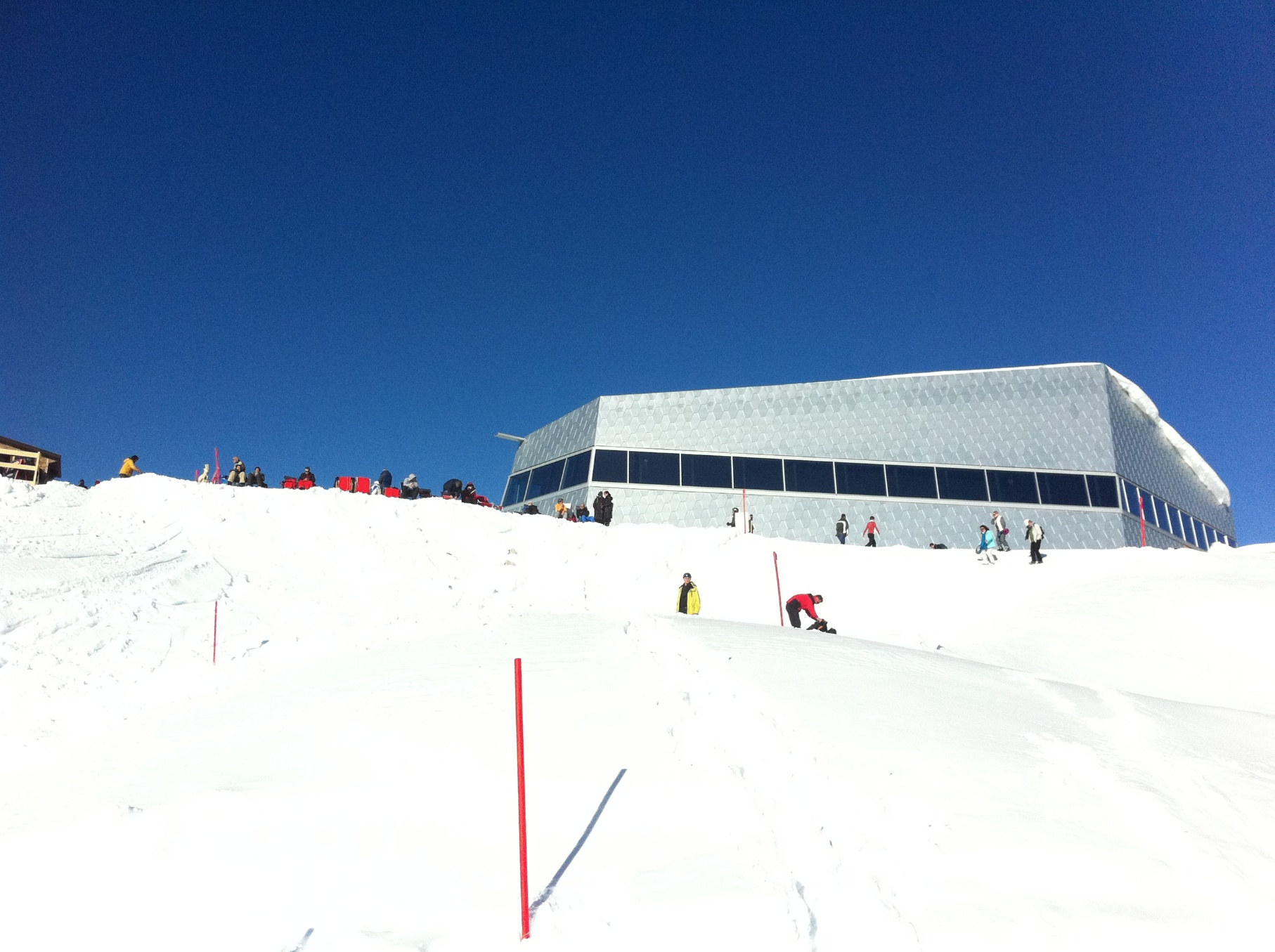 new restaurant on top of Weisshorn/Arosa with take-off place for paragliders